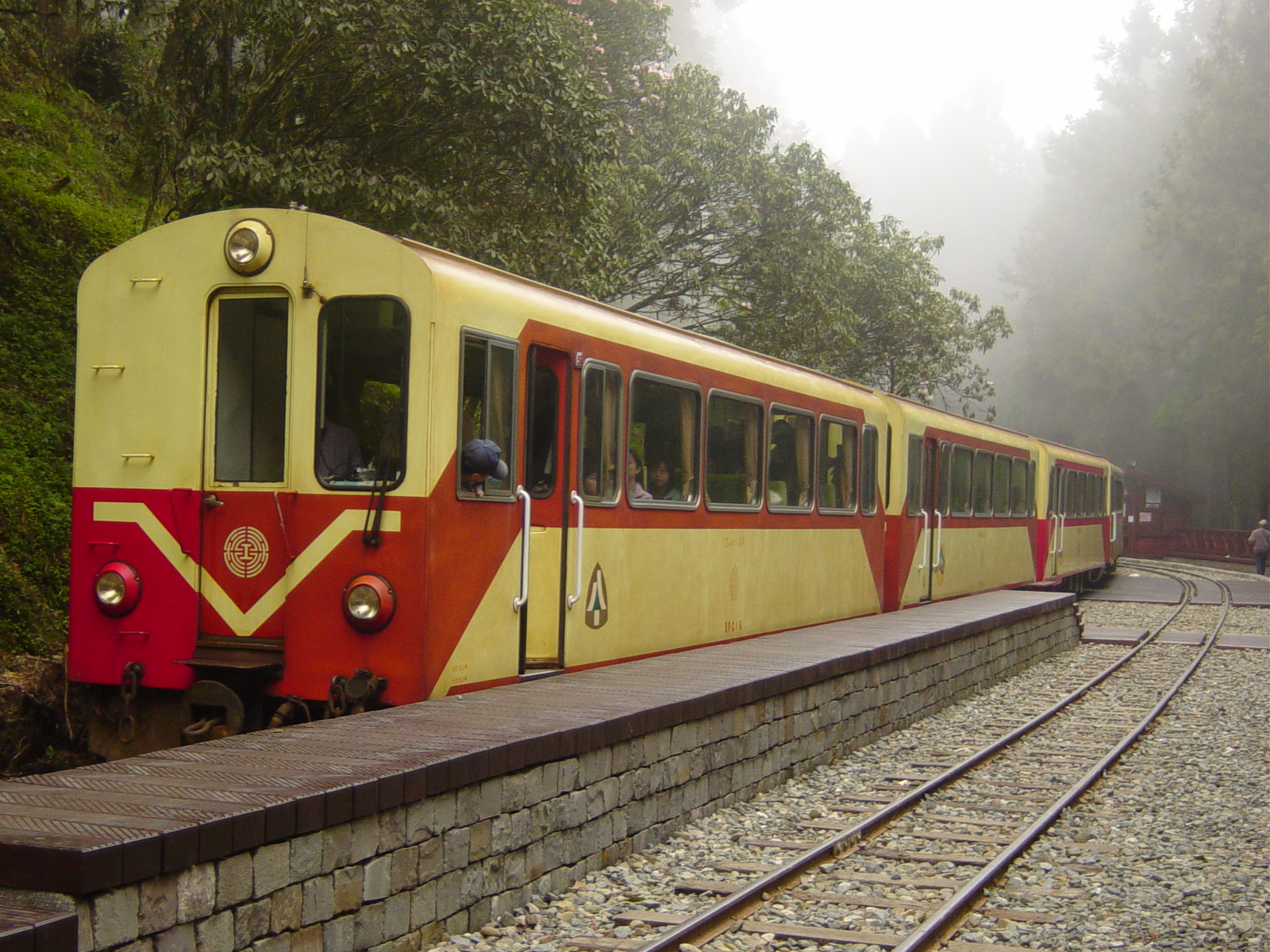 Train of Ali Mountain in Taiwan 阿里山號